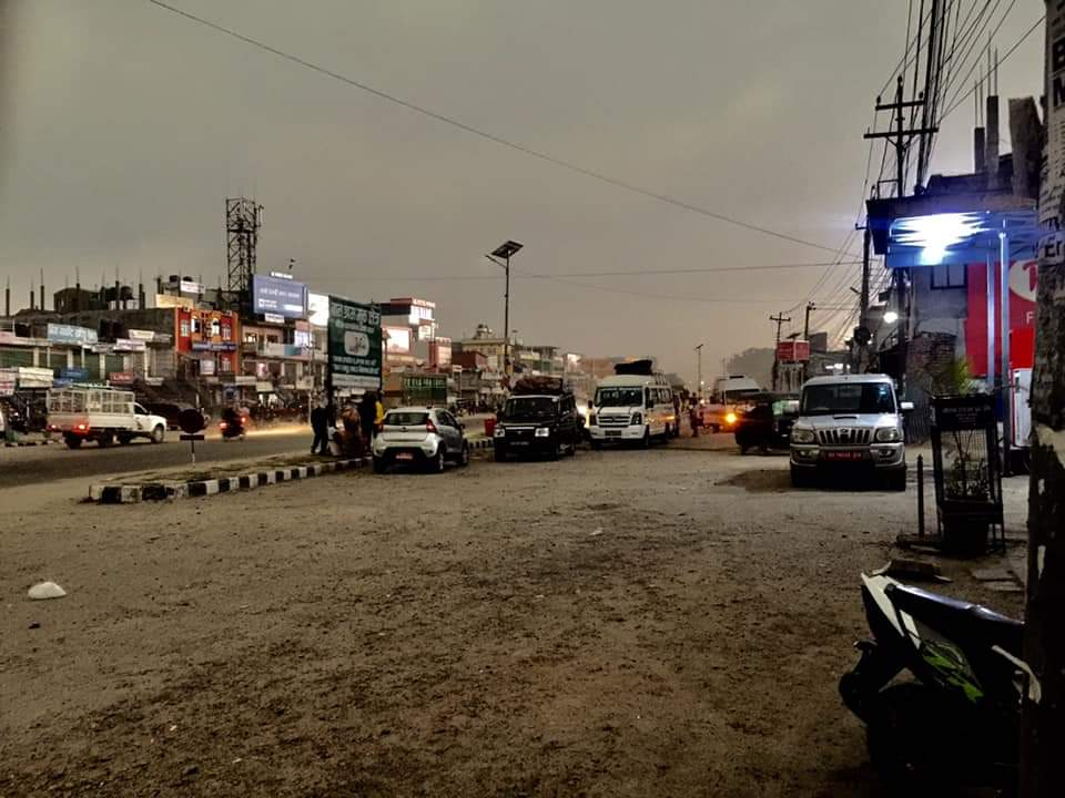 Bardibas Bazar